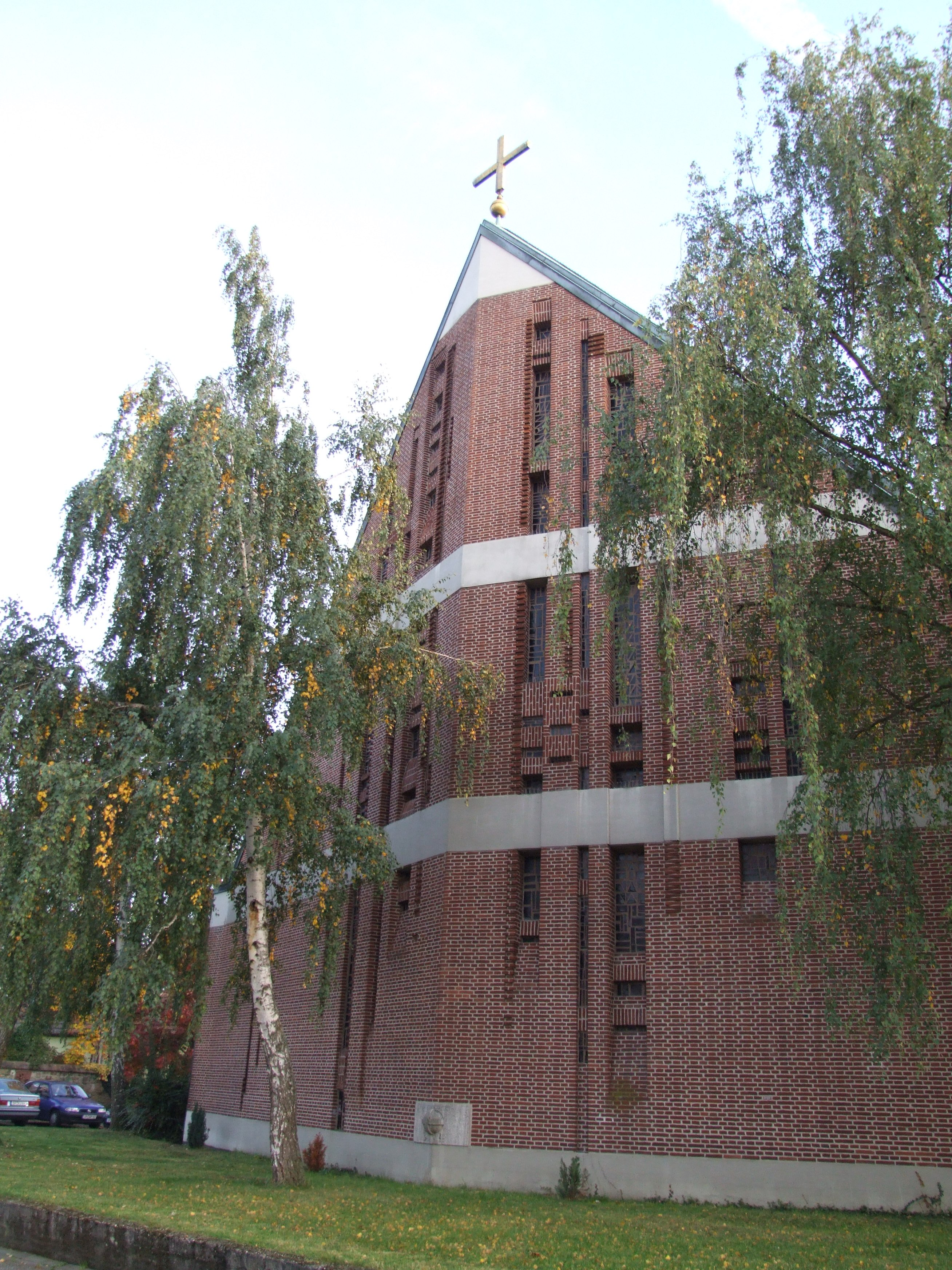 northside of Christuskirche (Speyer)